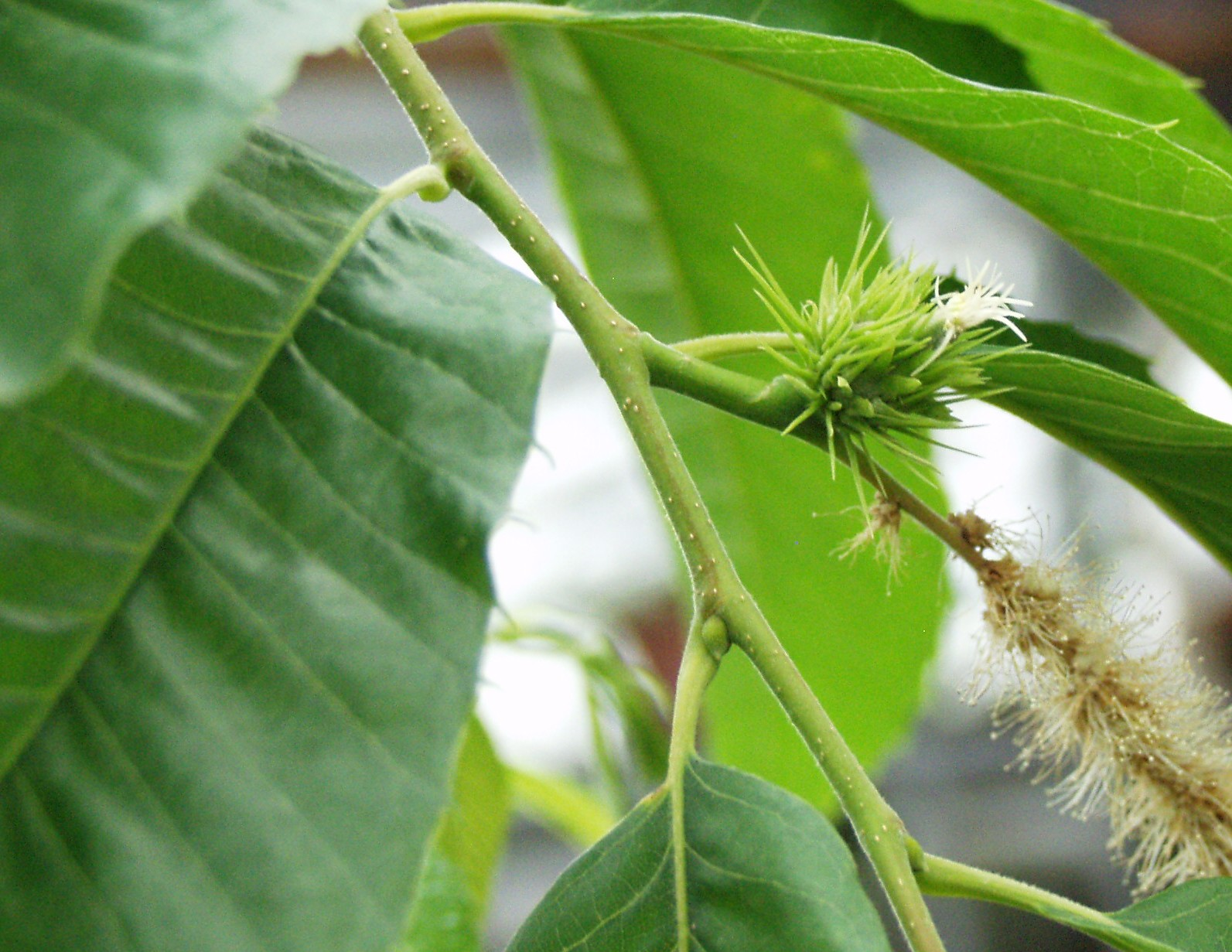 Female flowers of japanese chestnut (Castanea crenata) in botanical garden of Moscow University (indoor cultivation)